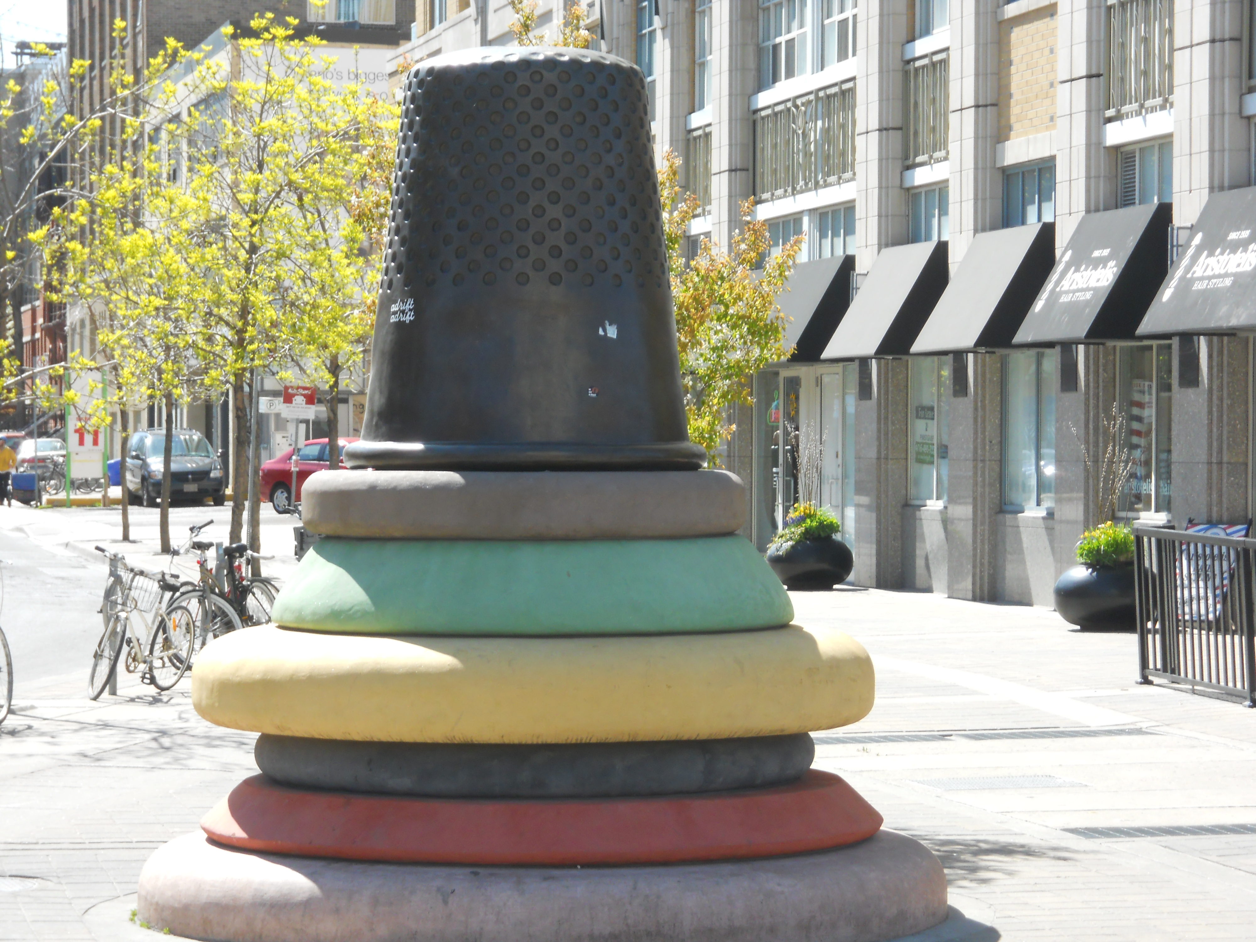 "Uniform Measure/Stack" (1997) by Stephen Cruise, a giant thimble resting on a stack of buttons on the northwest corner of Richmond Street and Spadina Avenue, commemorating Toronto's Garment District in that area.